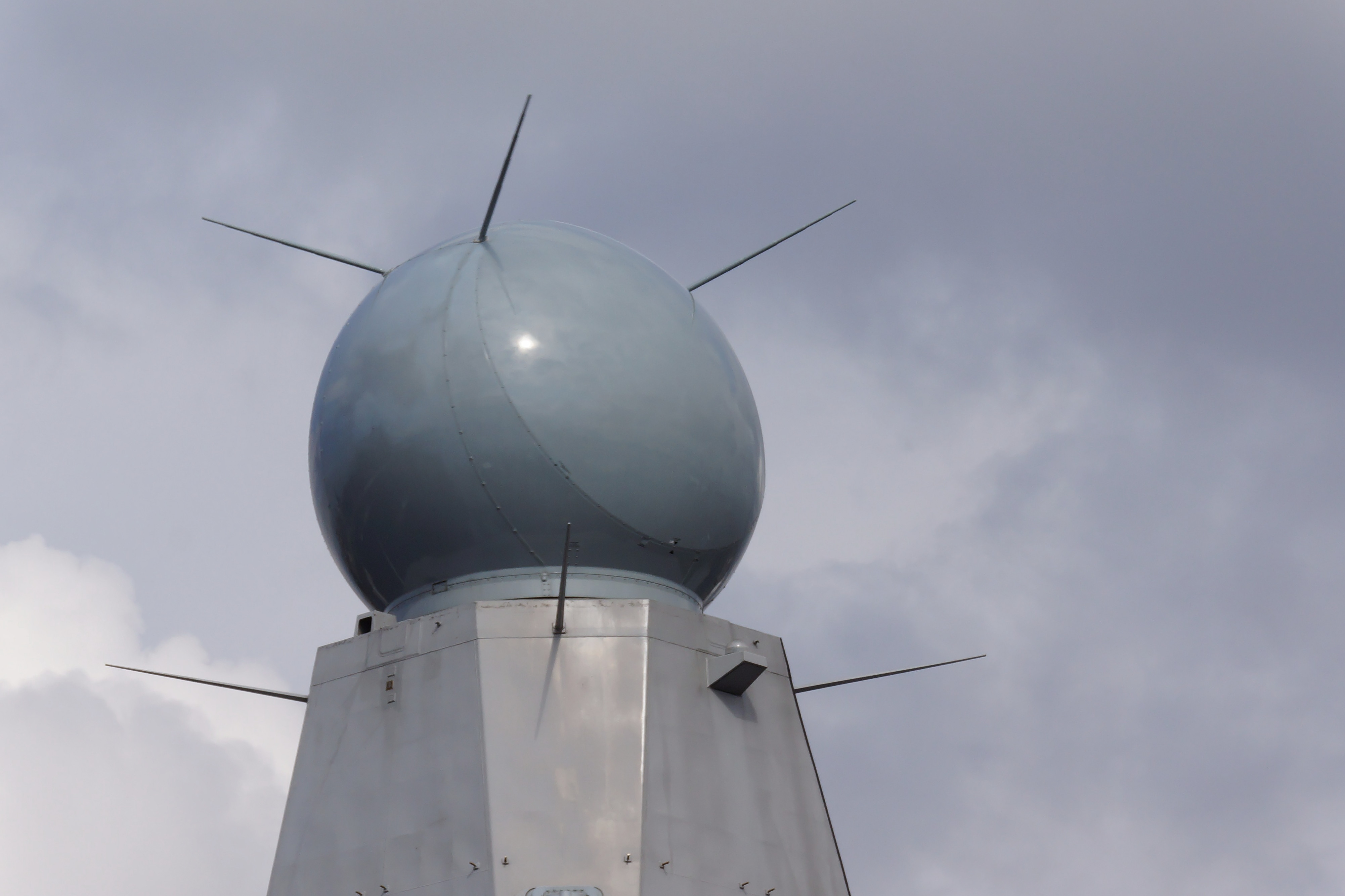 HMS Defender (D36) in the port of Hamburg, radar dome